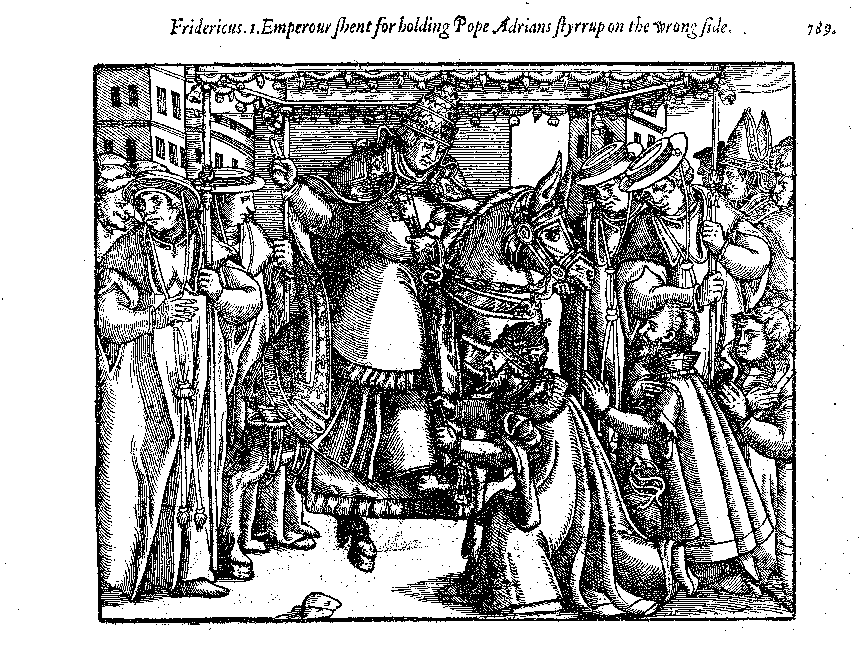 Fridericus. I. Emperour shent for holding Pope Adrians styrrup on the wrong side.